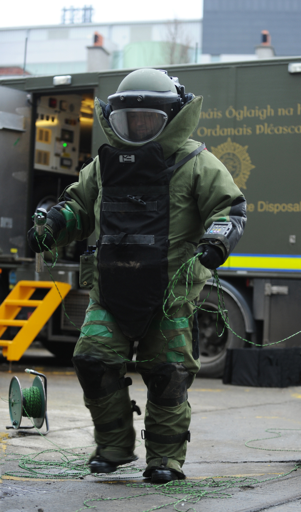 EOD Operator makes manual approach to device